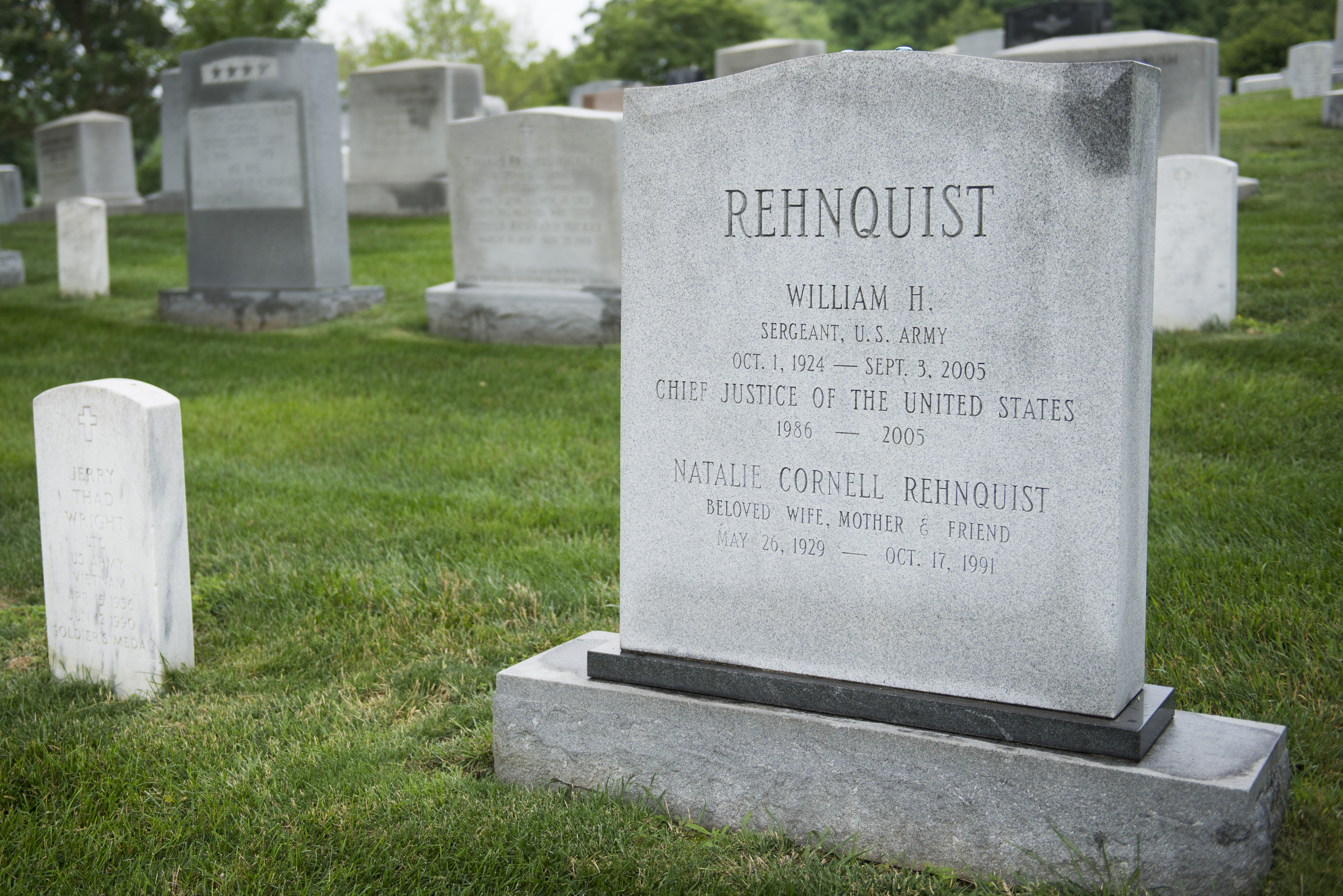 Chief Justice William H. Rehnquist, Section 5, Grave 7049-LH, was an American lawyer, jurist, and political figure who served as an Associate Justice of the Supreme Court of the U.S. and later as the 16th Chief Justice of the United States. (U.S. Army photo by Rachel Larue/released)